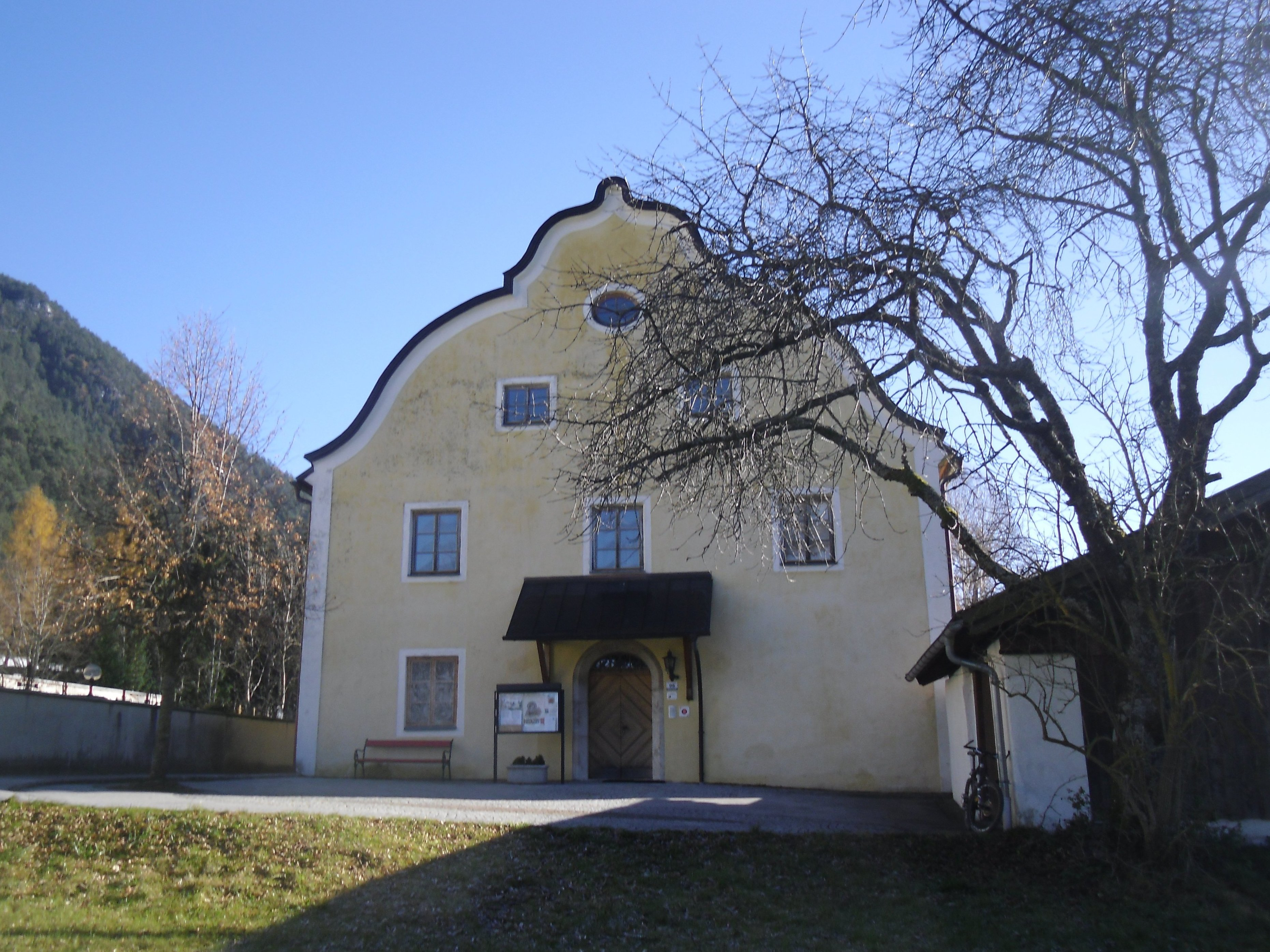 Widum und Notburgamuseum